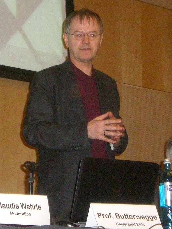 Prof. Dr. Christoph Butterwegge during panel discussion "Armes – reiches Deutschland?" at Haus am Dom (Caritas), Frankfurt am Main 2013.03.15